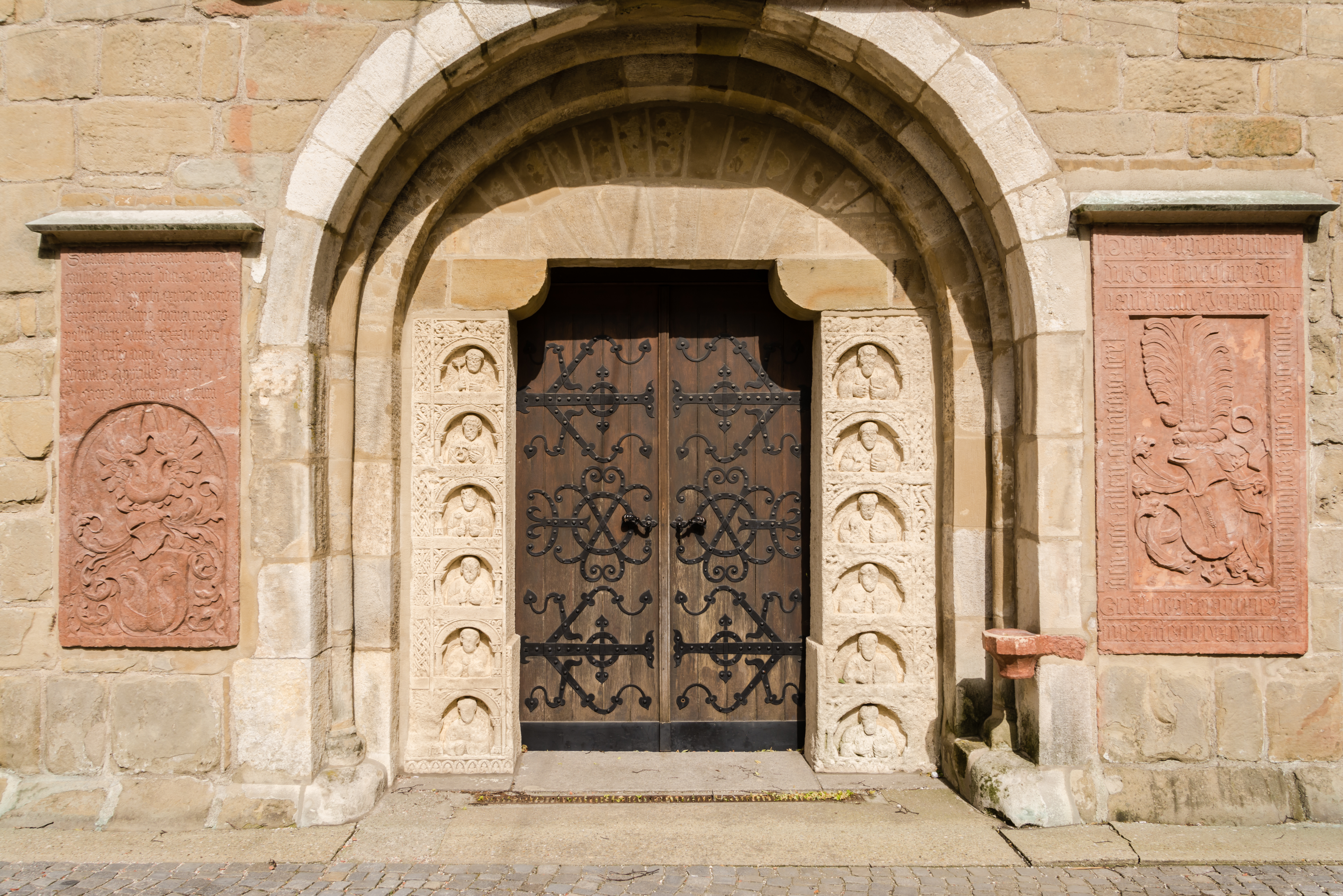 Western portal (early 13th century) of St. Stephen's parish church in Tulln an der Donau, Lower Austria.